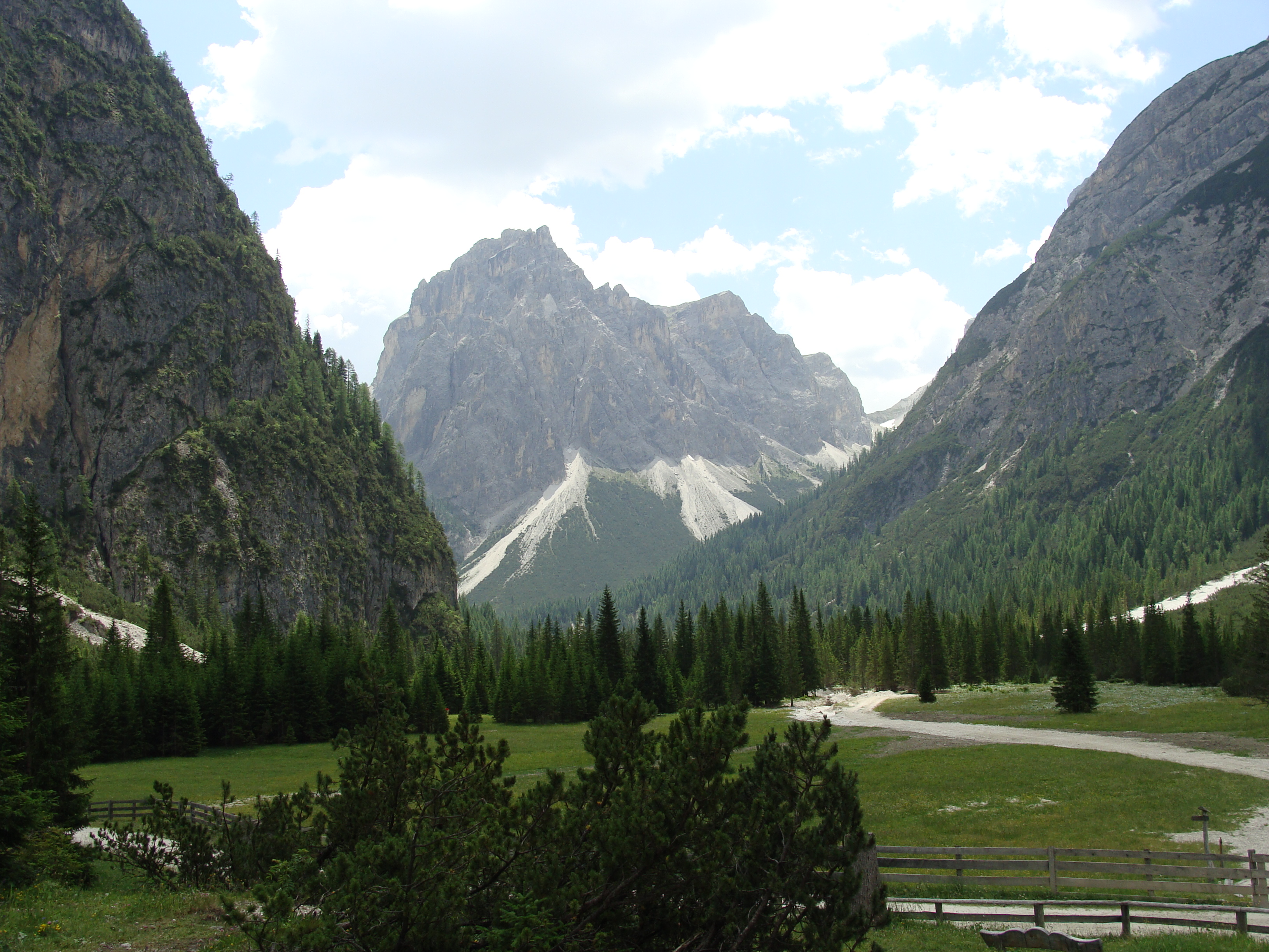 Morgenkopf (2493 m) - view from Innerfeldtal (Sesten Dolomites)